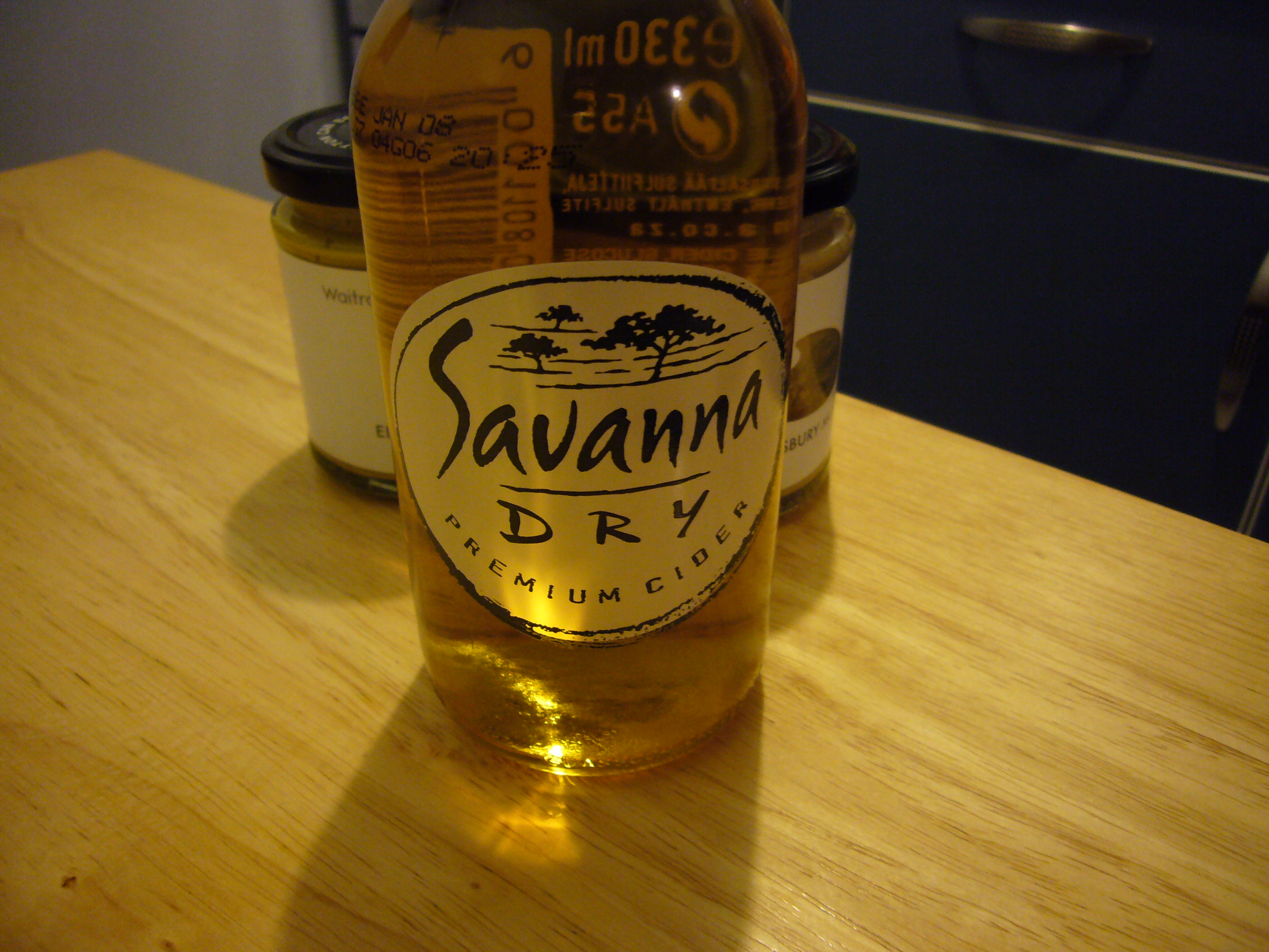 Savanna Dry with mustards in background